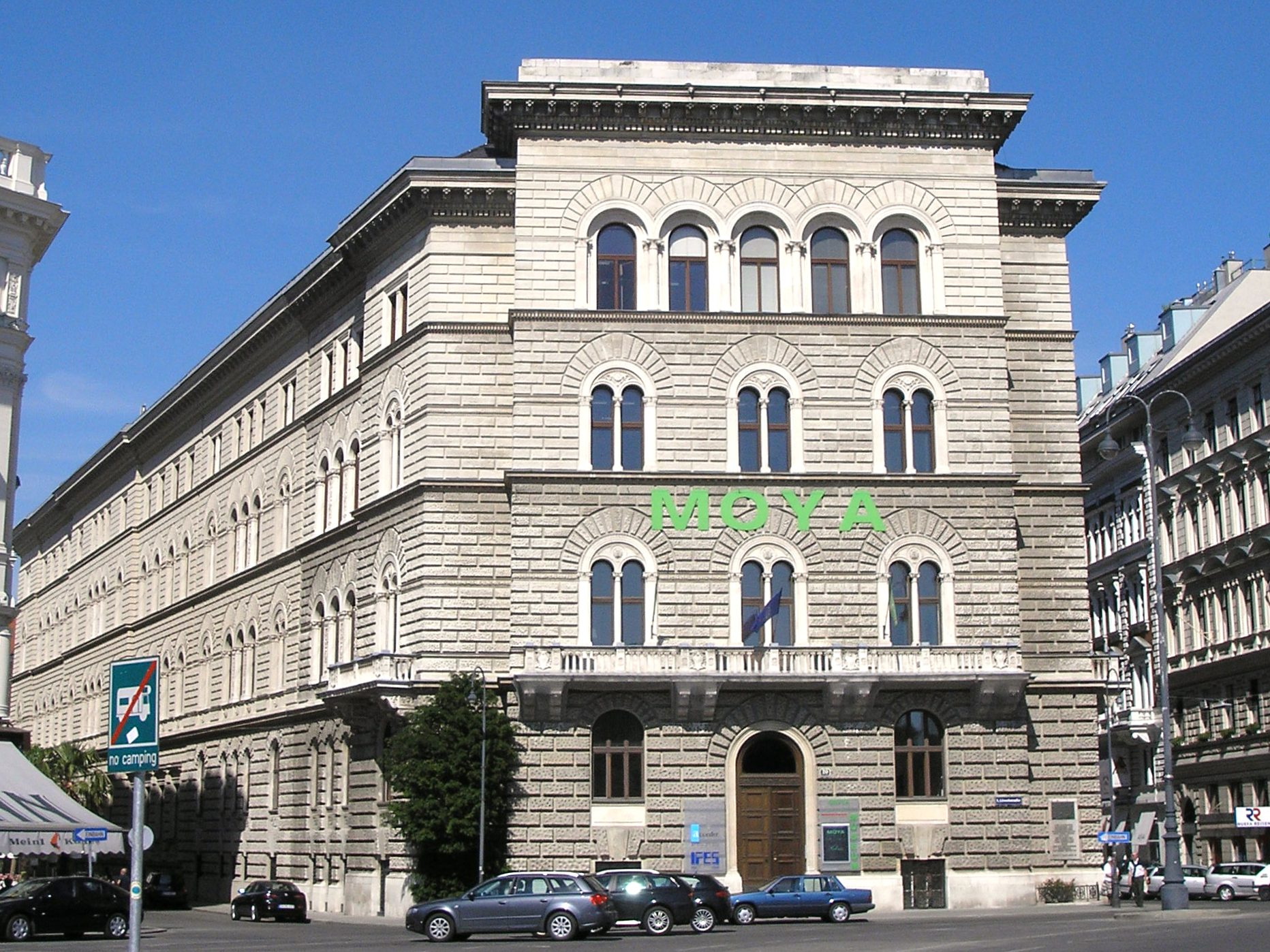 The old Bodencreditanstalt building in Vienna, next to the Burgtheater.